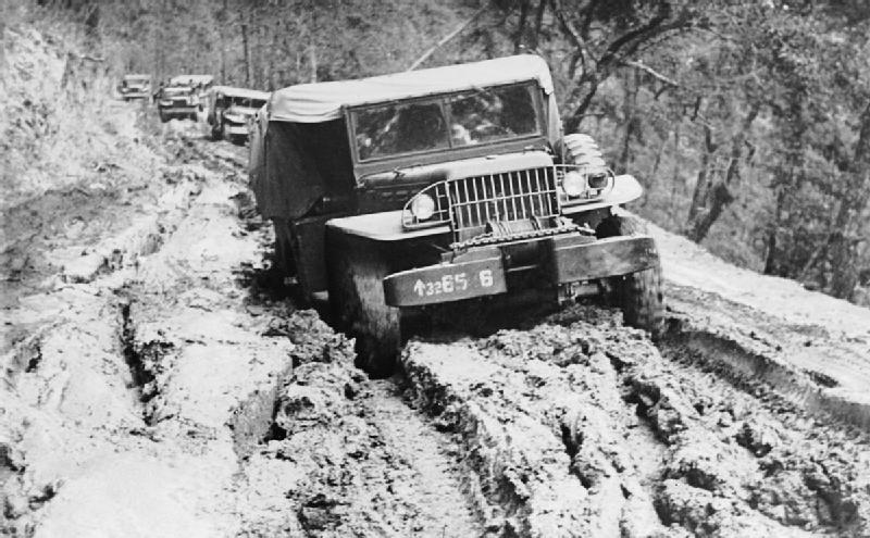 The War in the Far East- the Burma Campaign 1941-1945 Logistics: Transport of the 5th Indian Division struggling through mud on the Tiddim Front.